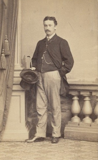 John Nietner born Johannes Werner Theodor Nietner (19 May 1828 - 1874) photographed in October 1862